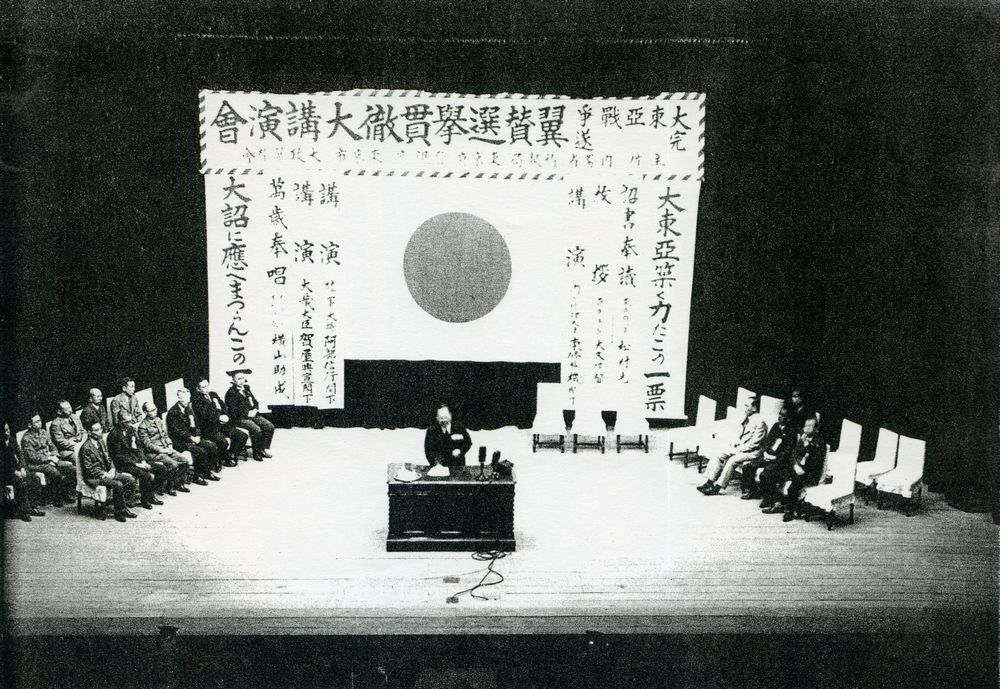 Imperial Rule Assistance Election Speech